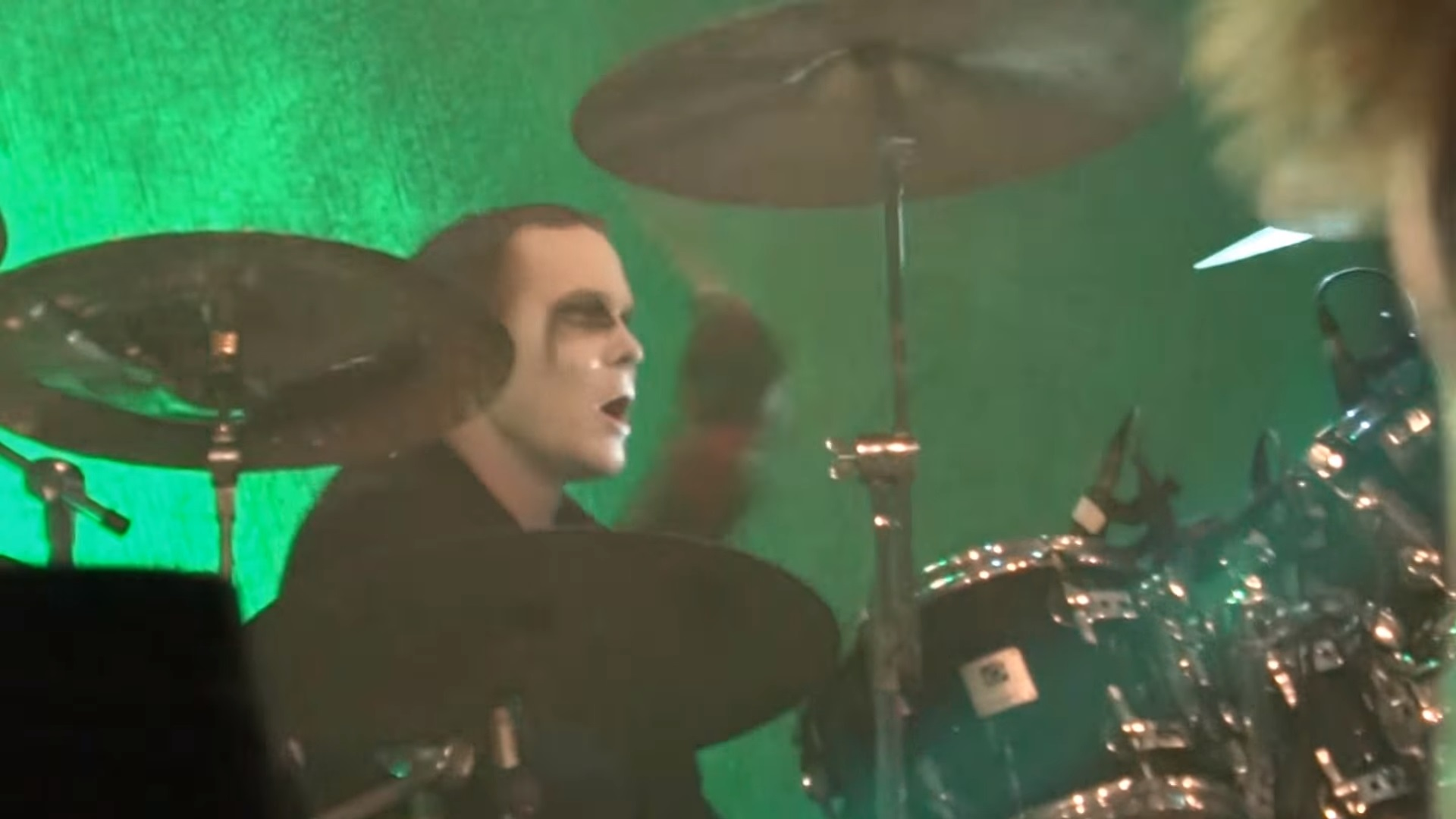 Powerwolf performing live at Out and Loud 2014.